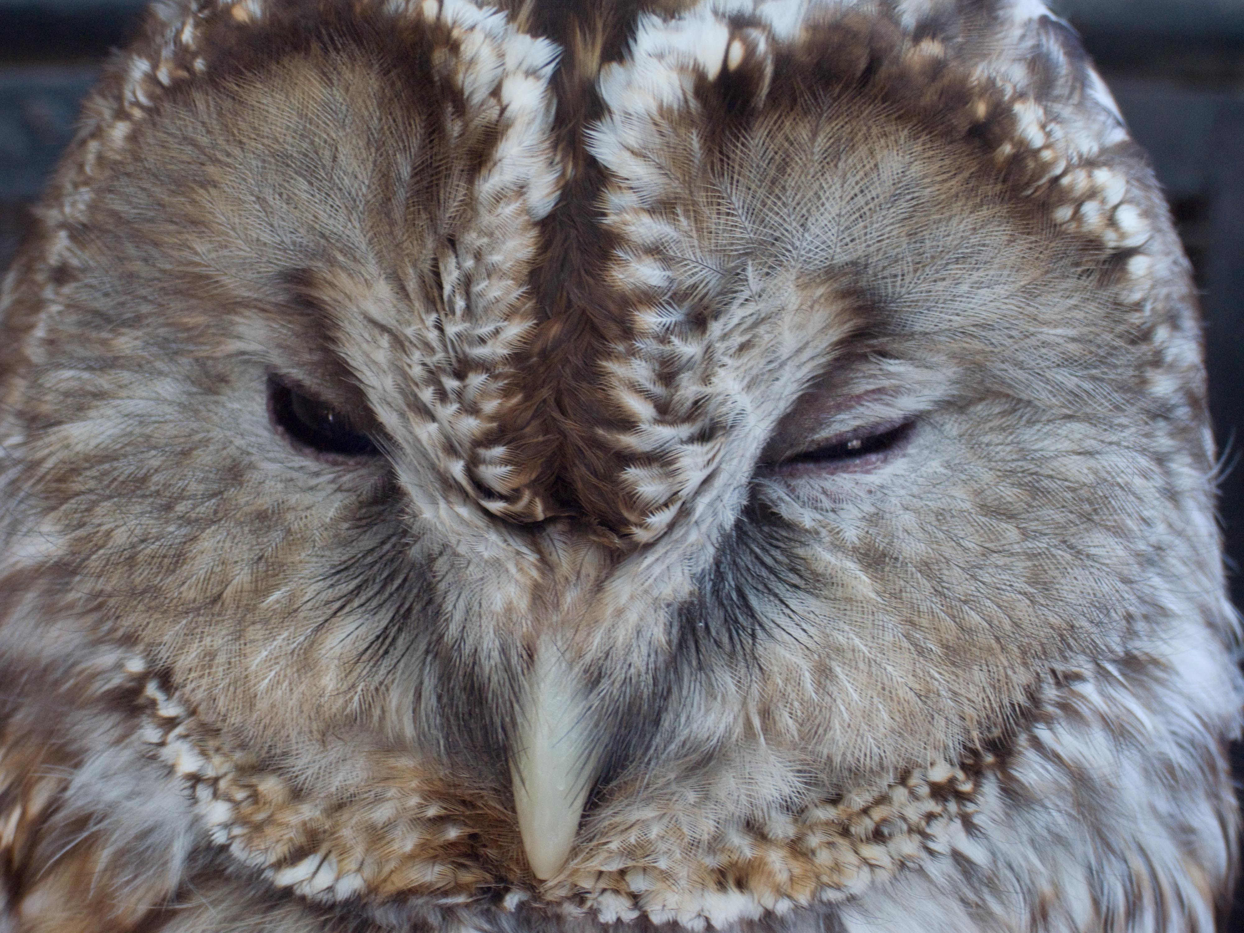 Slepping Ural Owl (Close up)